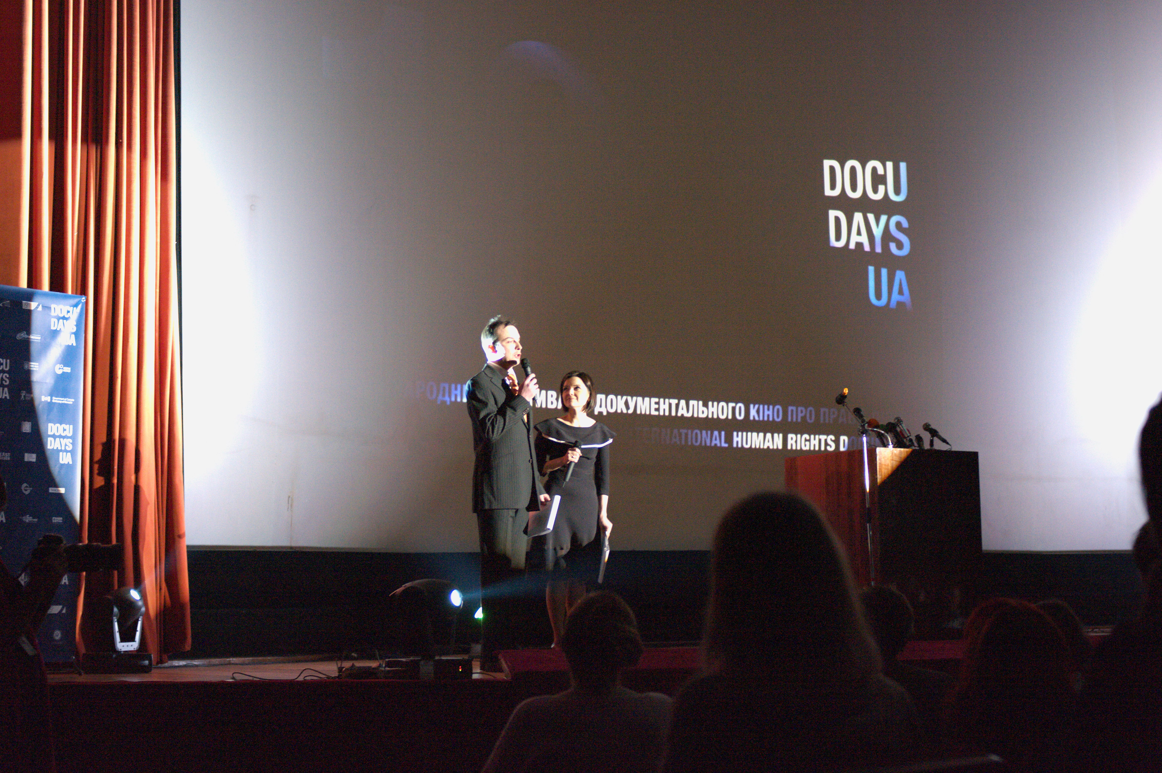 Kyiv Docudays 2013 opening ceremony